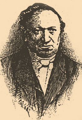 Illustration from Brockhaus and Efron Jewish Encyclopedia (1906—1913). Julius Fürst.